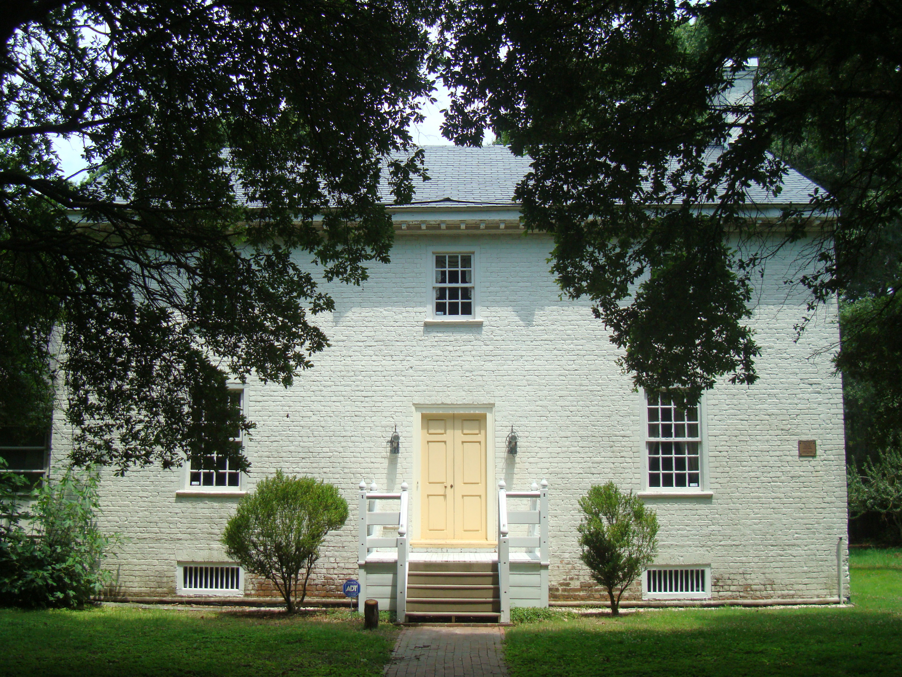 The family home, still inhabited in 2012 at Upper Wolfsnare historical plantation-era home in Virginia Beach, Virginia.